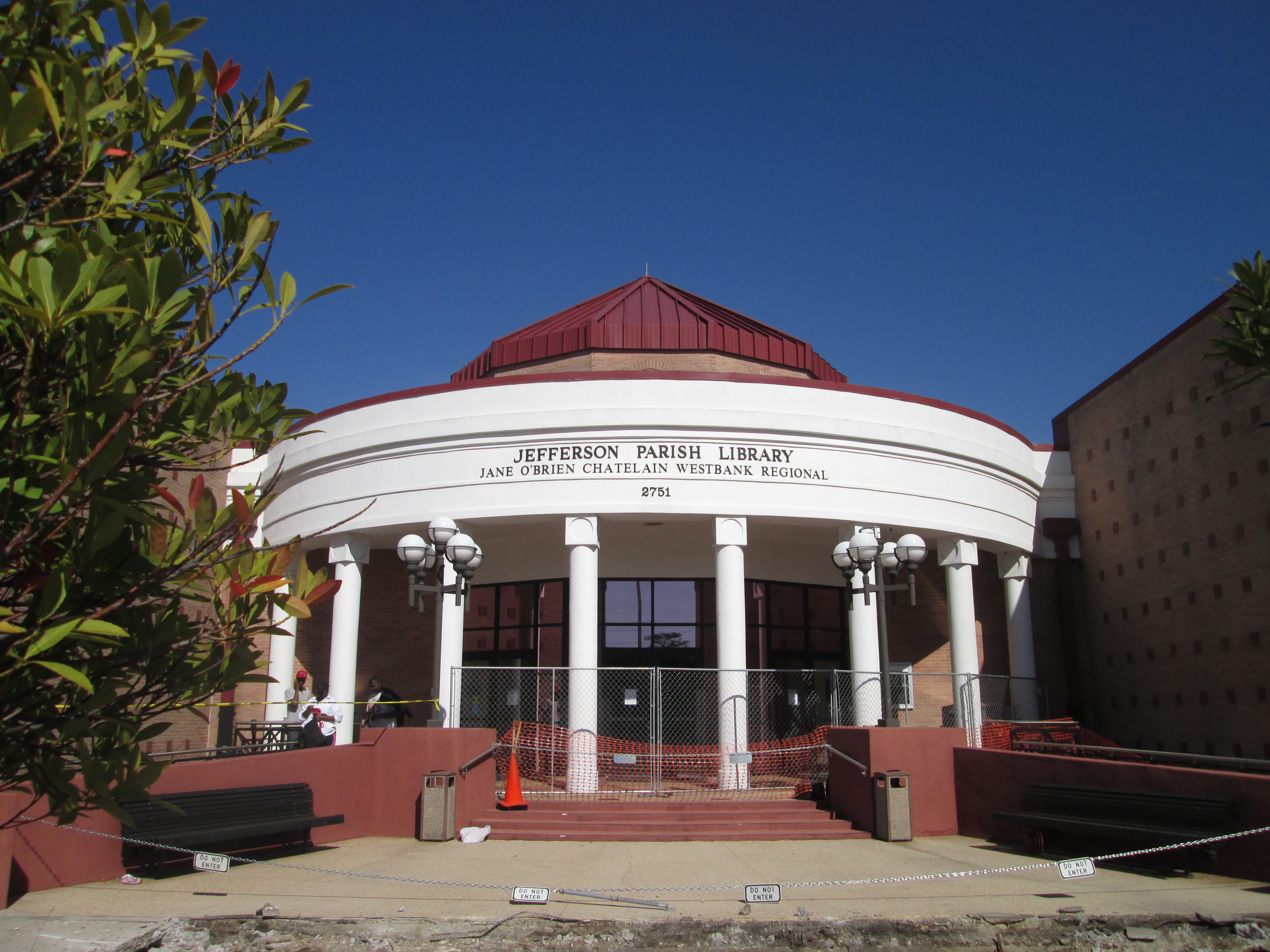 Harvey Louisiana. Jefferson Parish Public Library West Bank Regional branch, Manhattan Blvd.